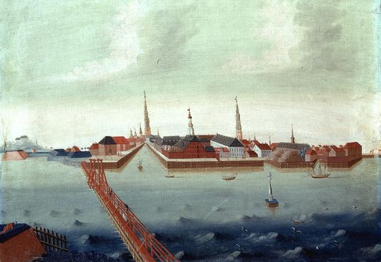 Copenhagen Harbour with the bridge Langebro and Christian IV's Brewhouse in the centre.